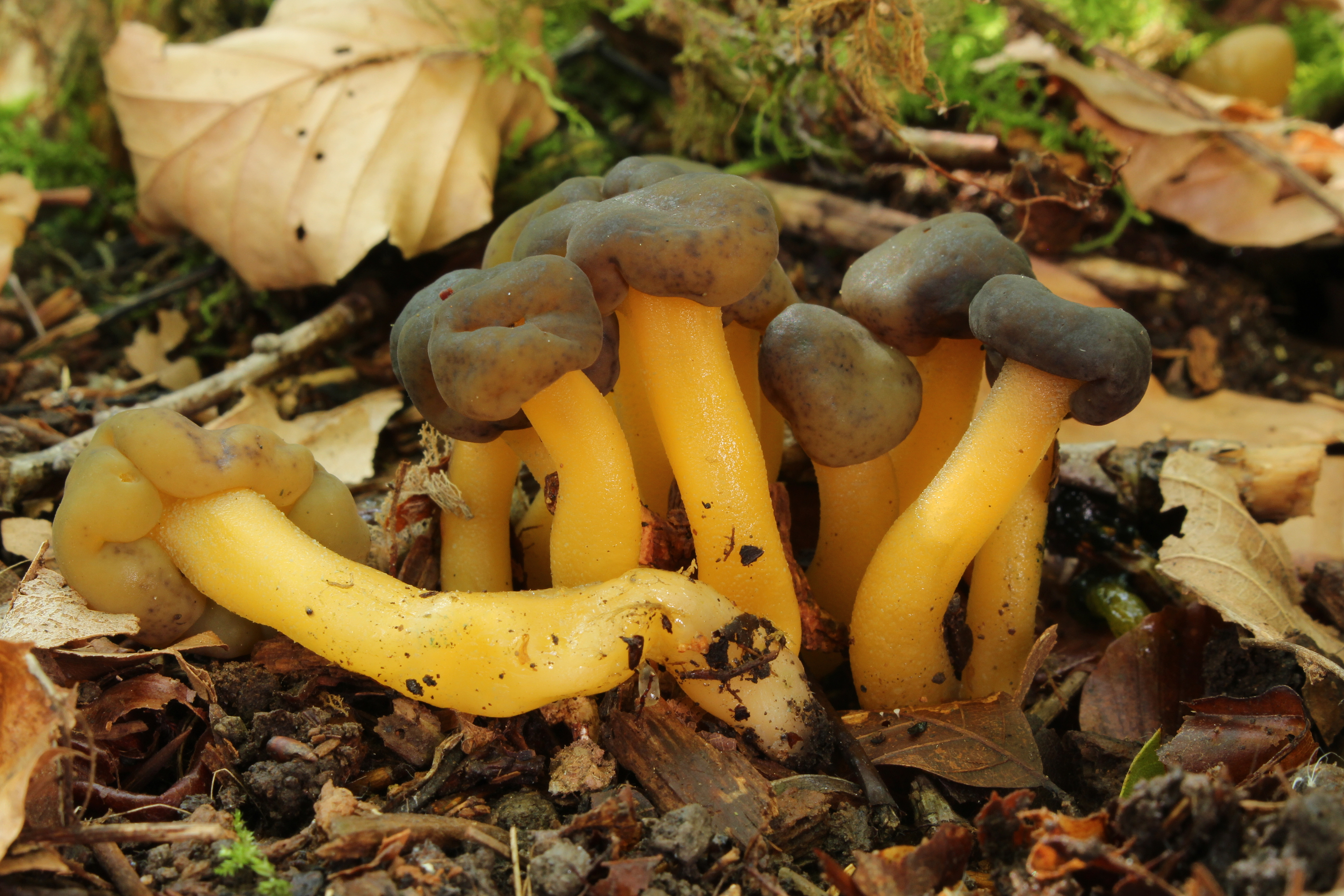 Jelly Baby, Leotia lubrica, Family: Leotiaceae, Location: Germany, Erbach, Ringingen